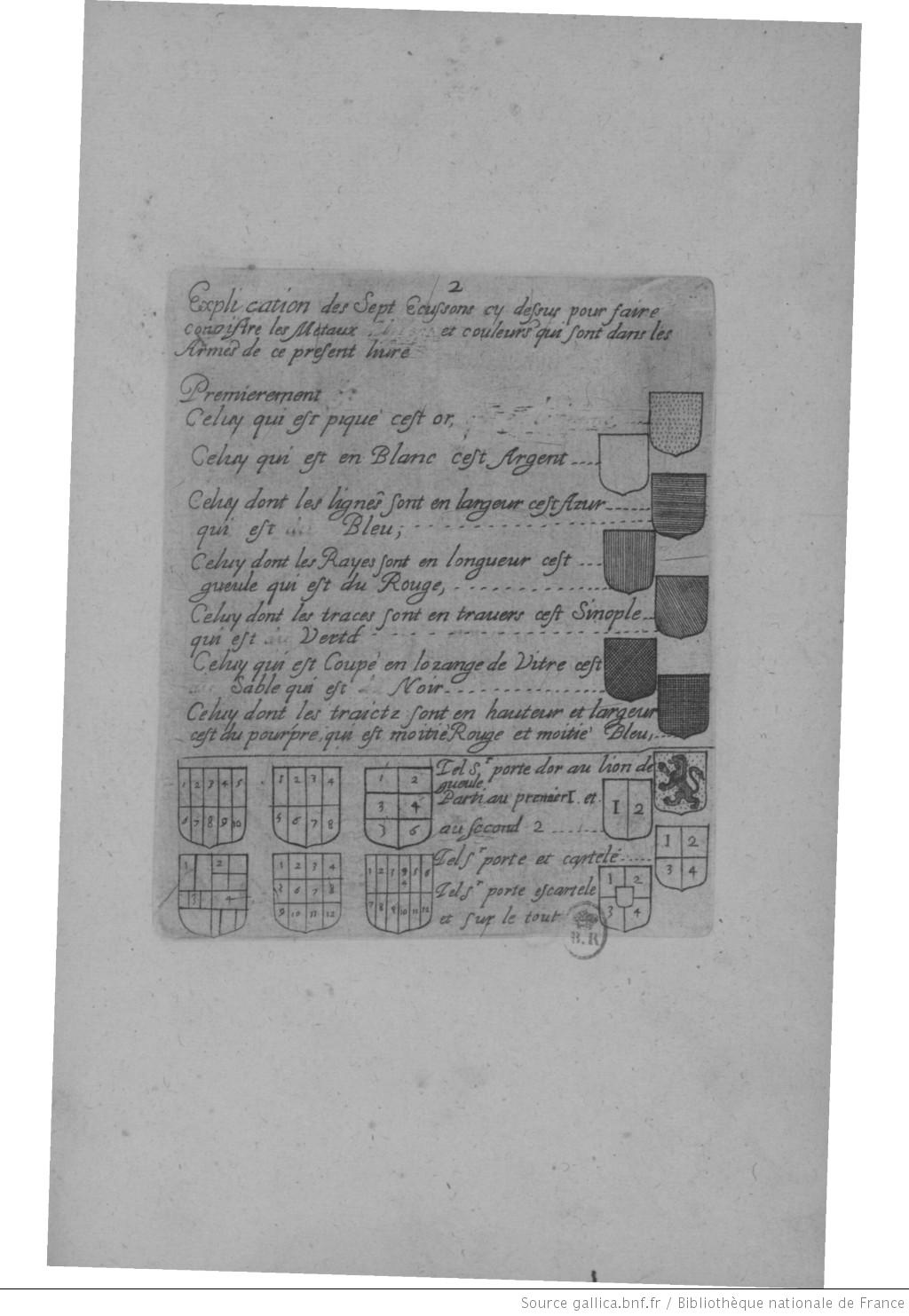 Hatching table of Charles Segoing